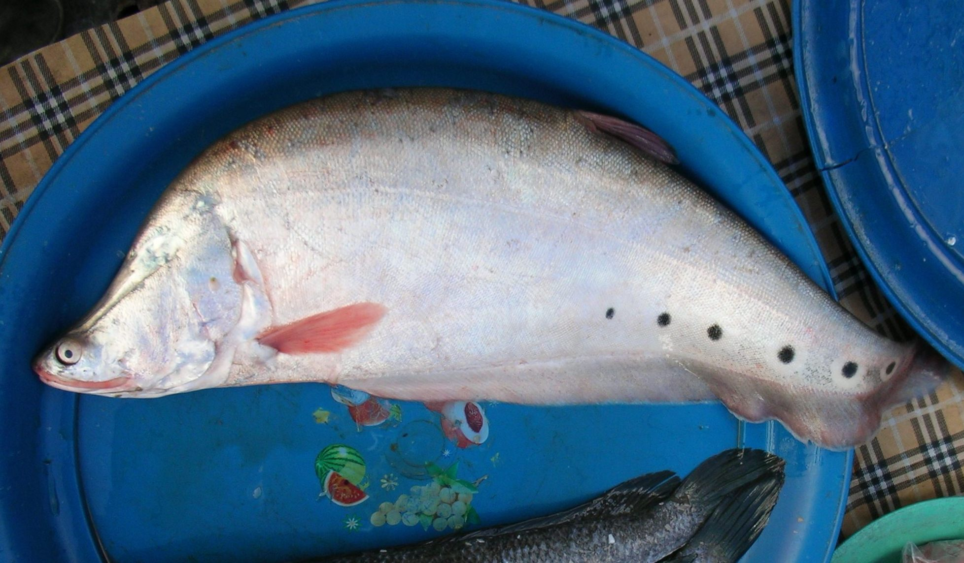 Chitala ornata at the market in Chiang Rai, Thailand